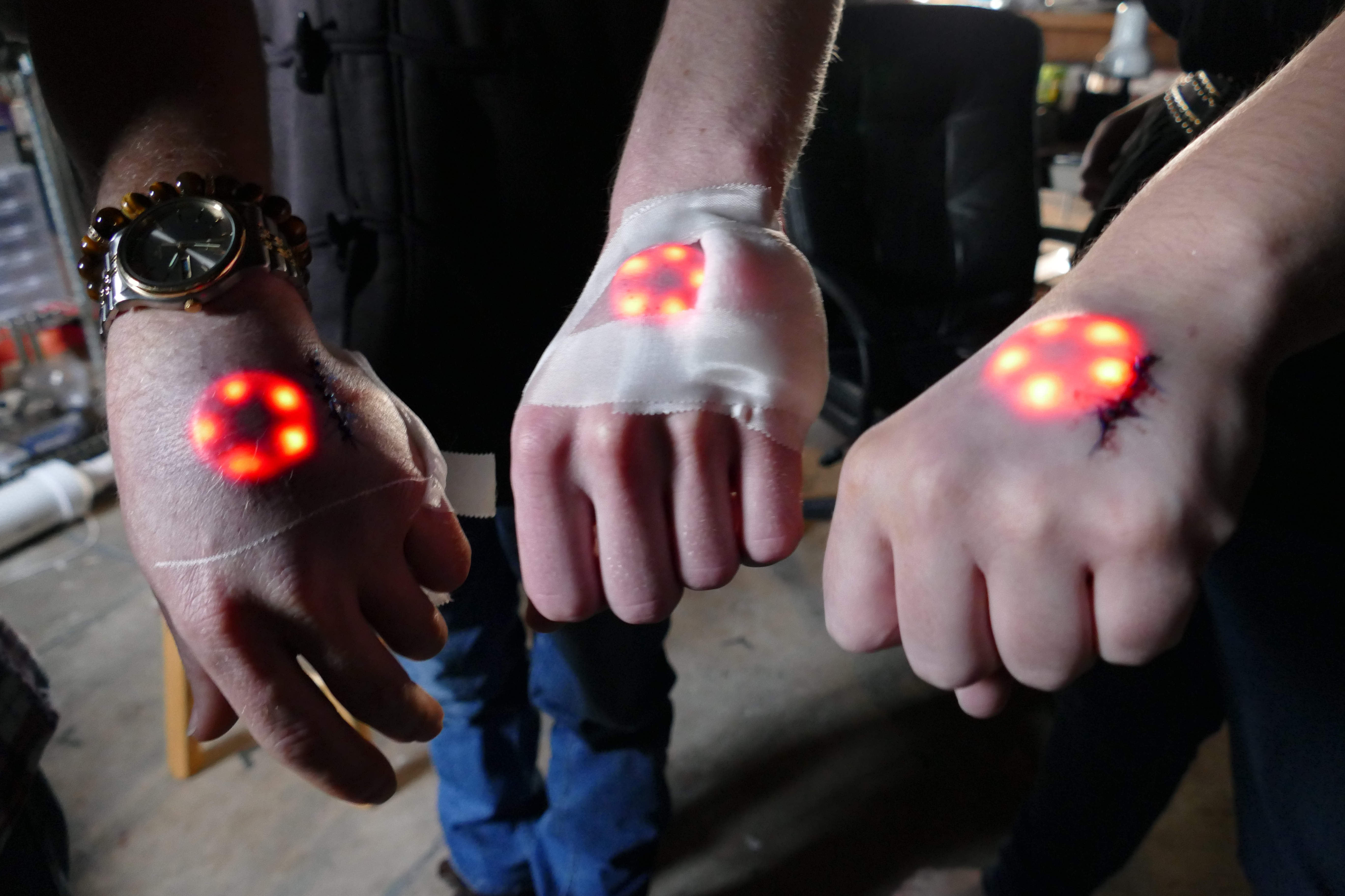 Photos of Grindhouse Wetware's Northstar Device taken by Ryan O'Shea in November, 2015.